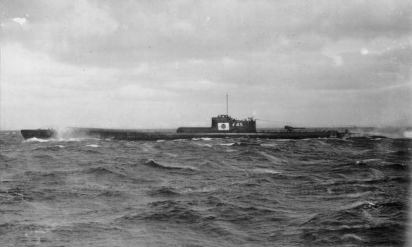 Japanese submarine I-45 (B-class newtype-1), on speed trial run off Sasebo.